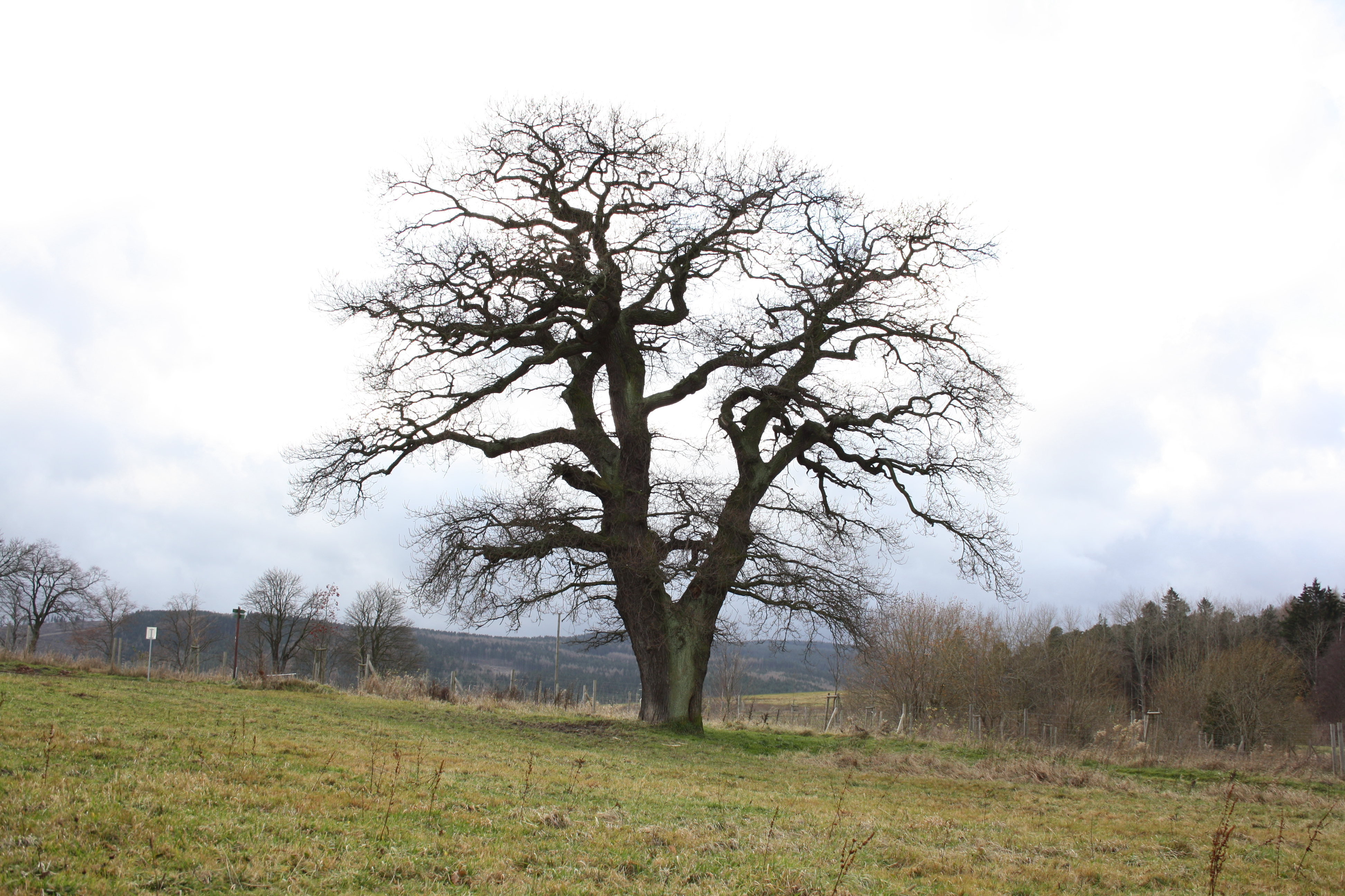 Germany, Thuringia, Ilm-Kreis, Ilmenau, Ortsteil Oberpörlitz, Old Oak near „Hirtenbuschteiche“.